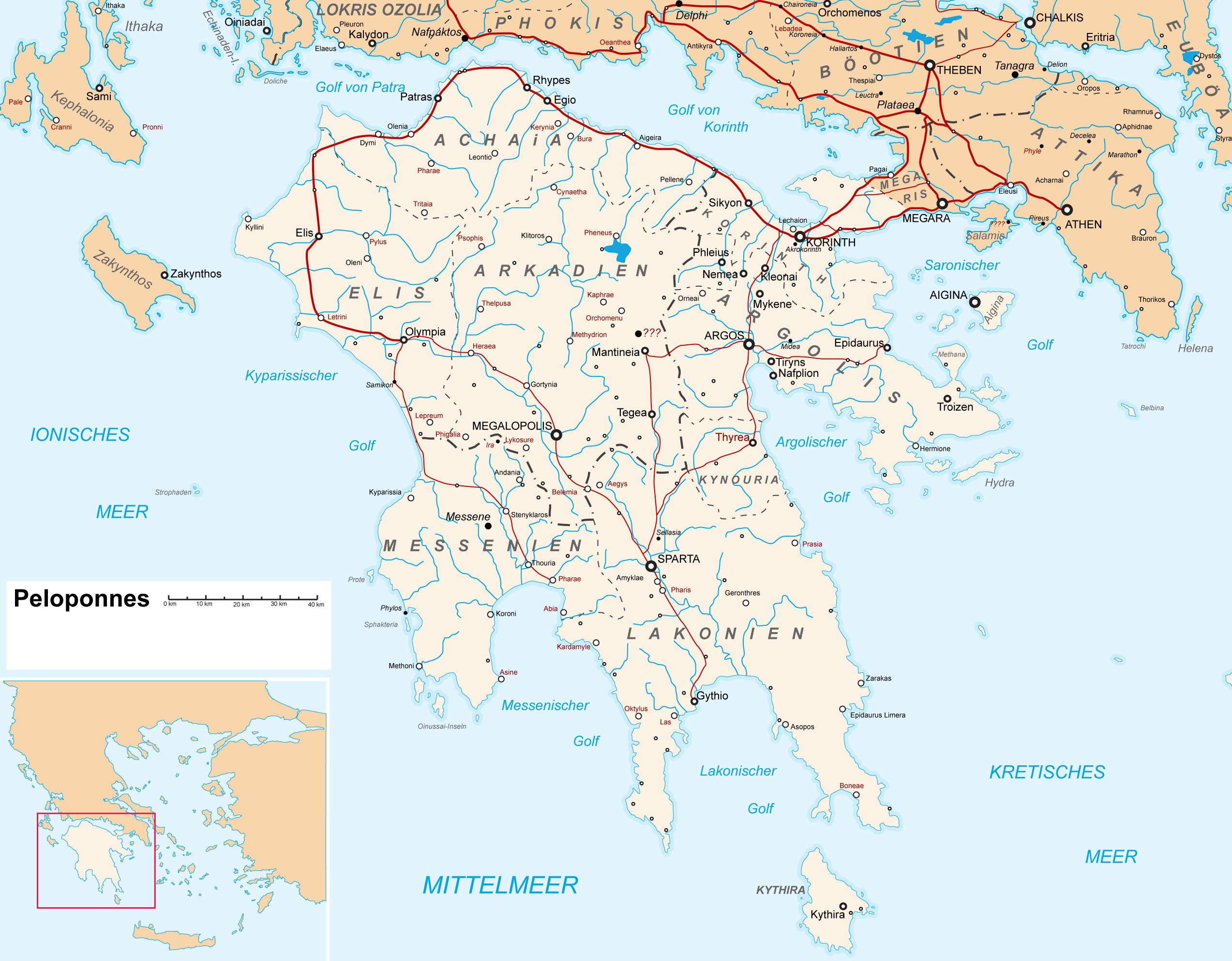 Map of the ancient Peloponnese, Greece with Names in German